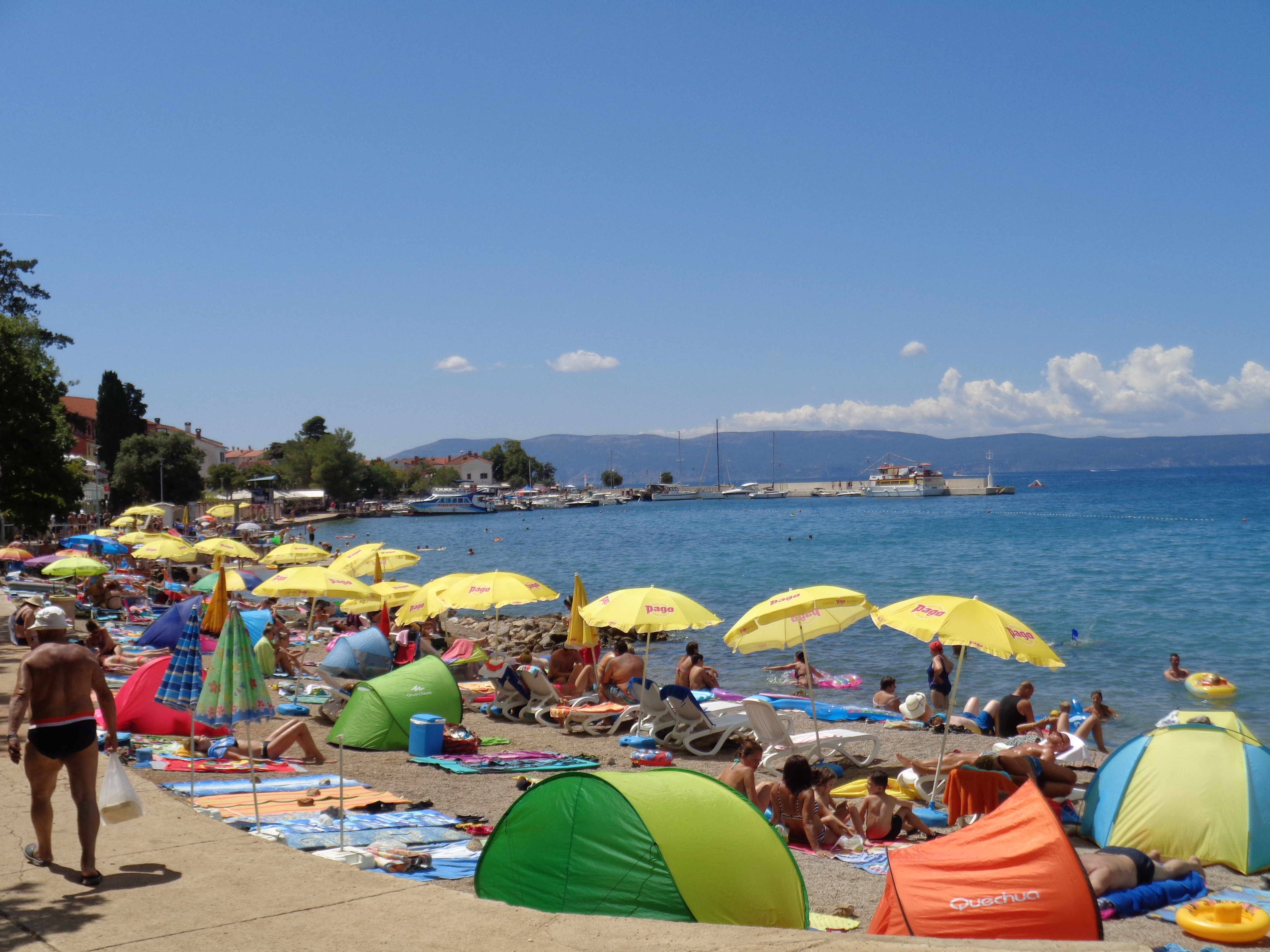 Njivice, Island of Krk, Primorje-Gorski Kotar County, Croatia - beach (north view)